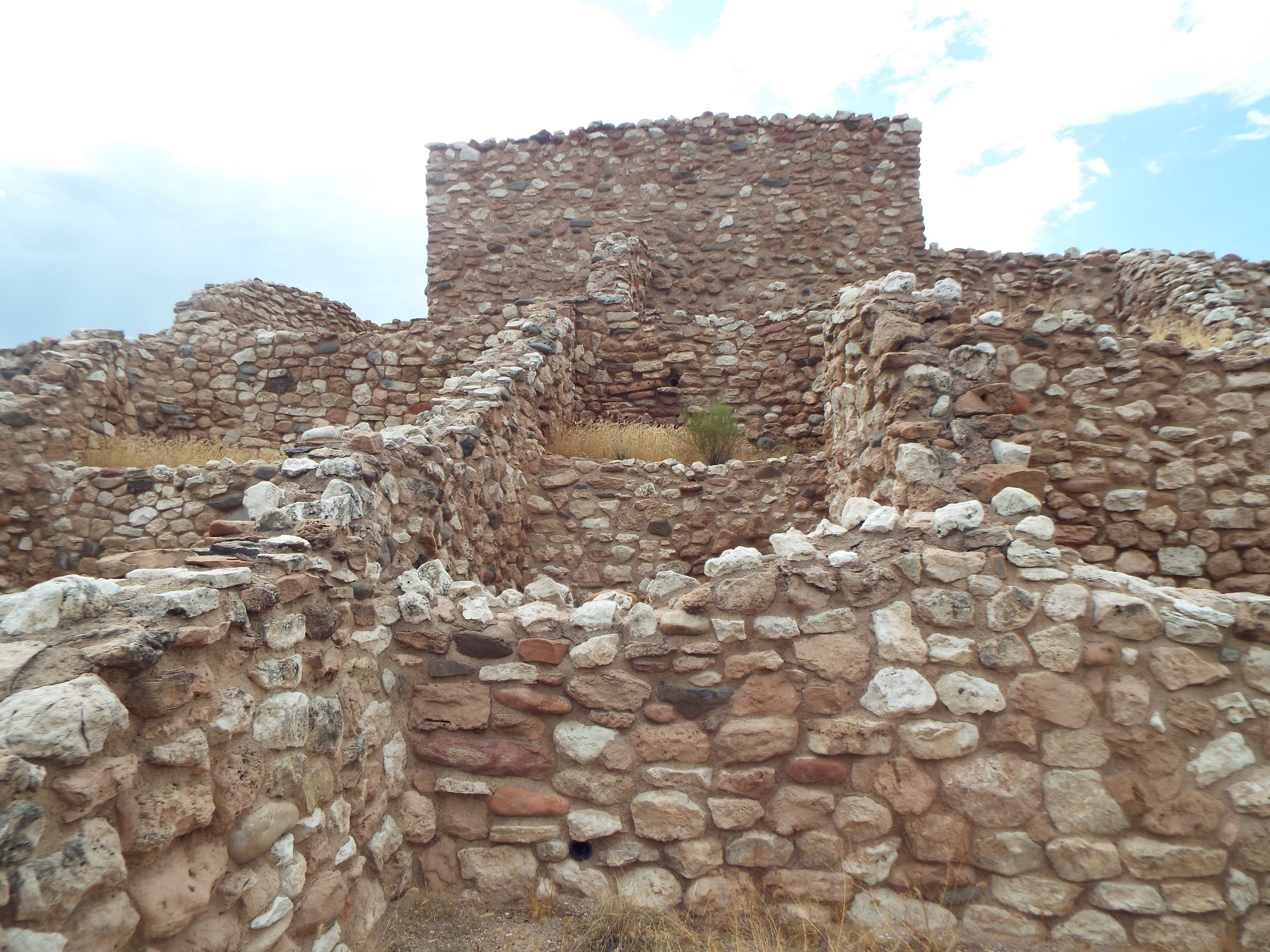 Tuzigoot National Monument in Clarkdale, Az.